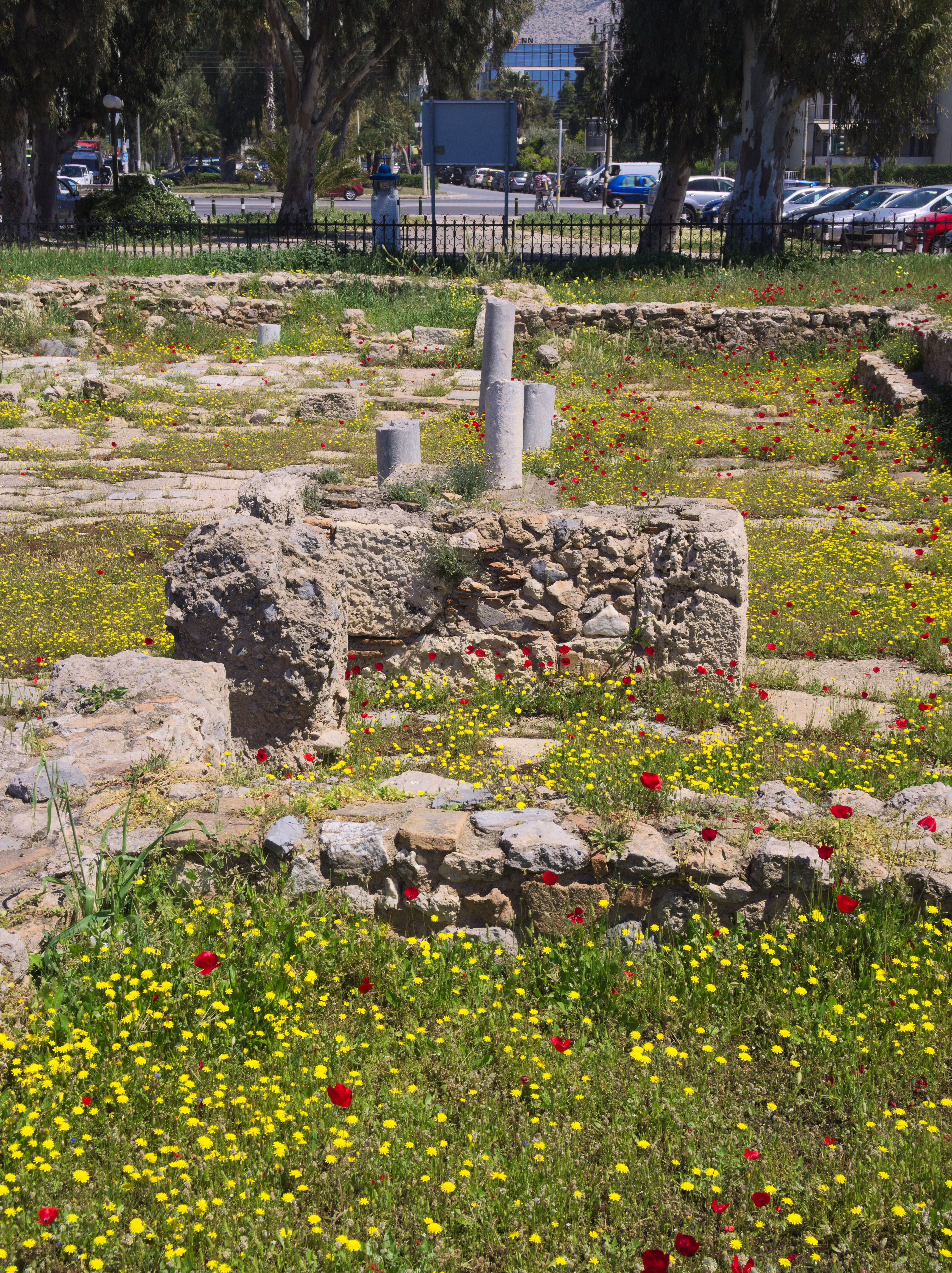 Part of early christian basilica of Glyfada in spring. It is three aisled (15,75x17,5 m). It dates of from 5th-6th century AC.